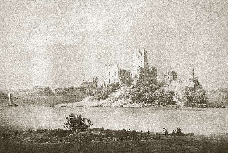 Trakai Island Castle in 19c, Lithuania